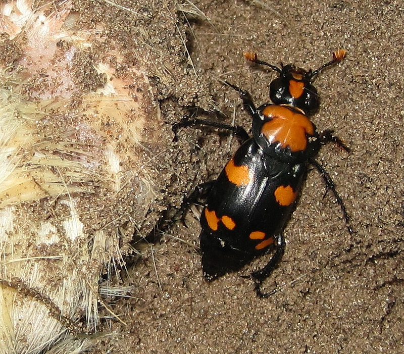 Pictured here is an American Burying Beetle (Nicrophorus americanus). This close up shot shows its unique colors and markings. Location: Price Ranch near Burwell, Nebraska Credit: Lindsay Vivian / USFWS Photo Contest Entry #50